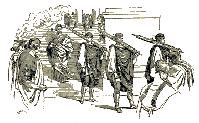 This elementary history of Rome presents short stories of the great heroes, mythical and historical, from Aeneas and the founding of Rome to the fall of the western empire. Around the famous characters of Rome are graphically grouped the great events with which their names will forever stand connected. Vivid descriptions bring to life the events narrated, making history attractive to the young, and awakening their enthusiasm for further reading and study.